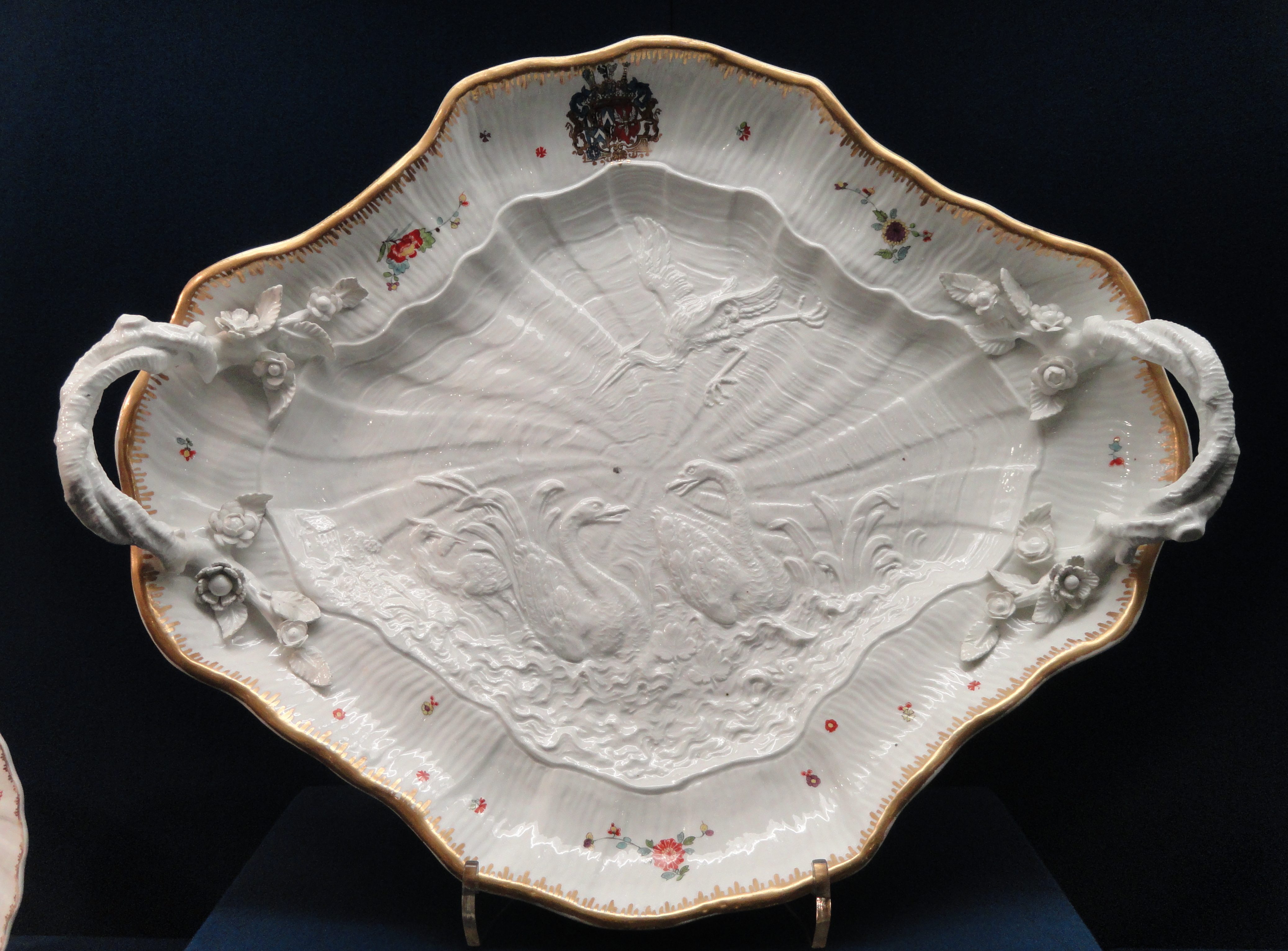 Exhibit in the Gardiner Museum, Toronto, Ontario, Canada. This artwork is in the public domain because the artist died more than 70 years ago.